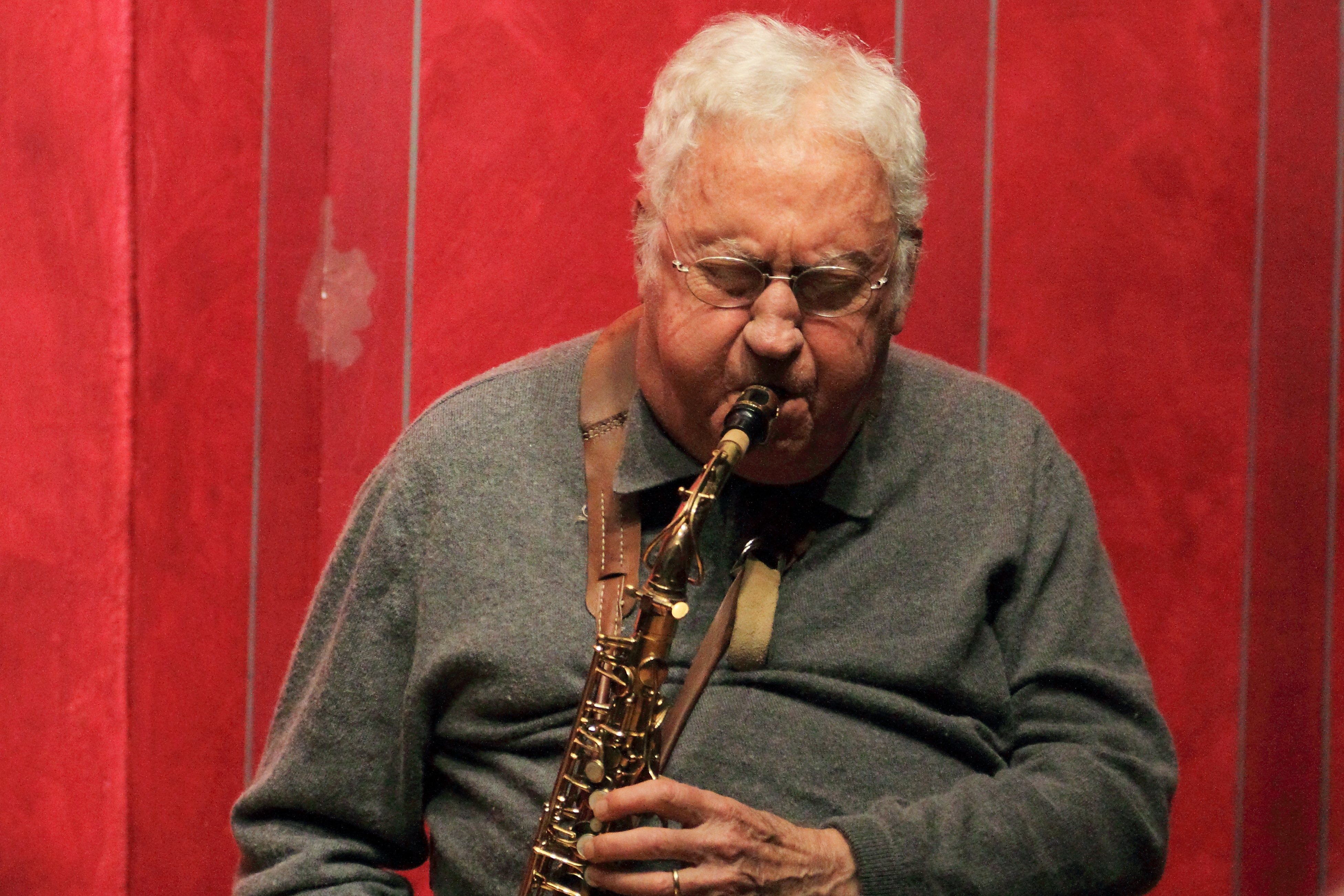 Concert of Lee Konitz and Florian Weber in the "Red Saloon" of the Deutschordenschloss Bad Mergentheim.